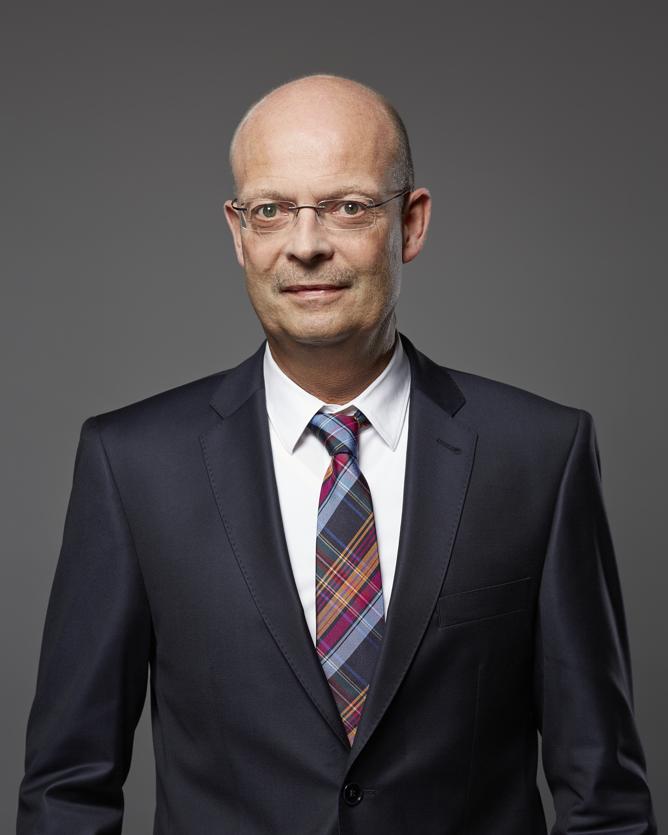 Dr. Bernd Wiegand, Lord Mayor of Halle (Saale), Germany